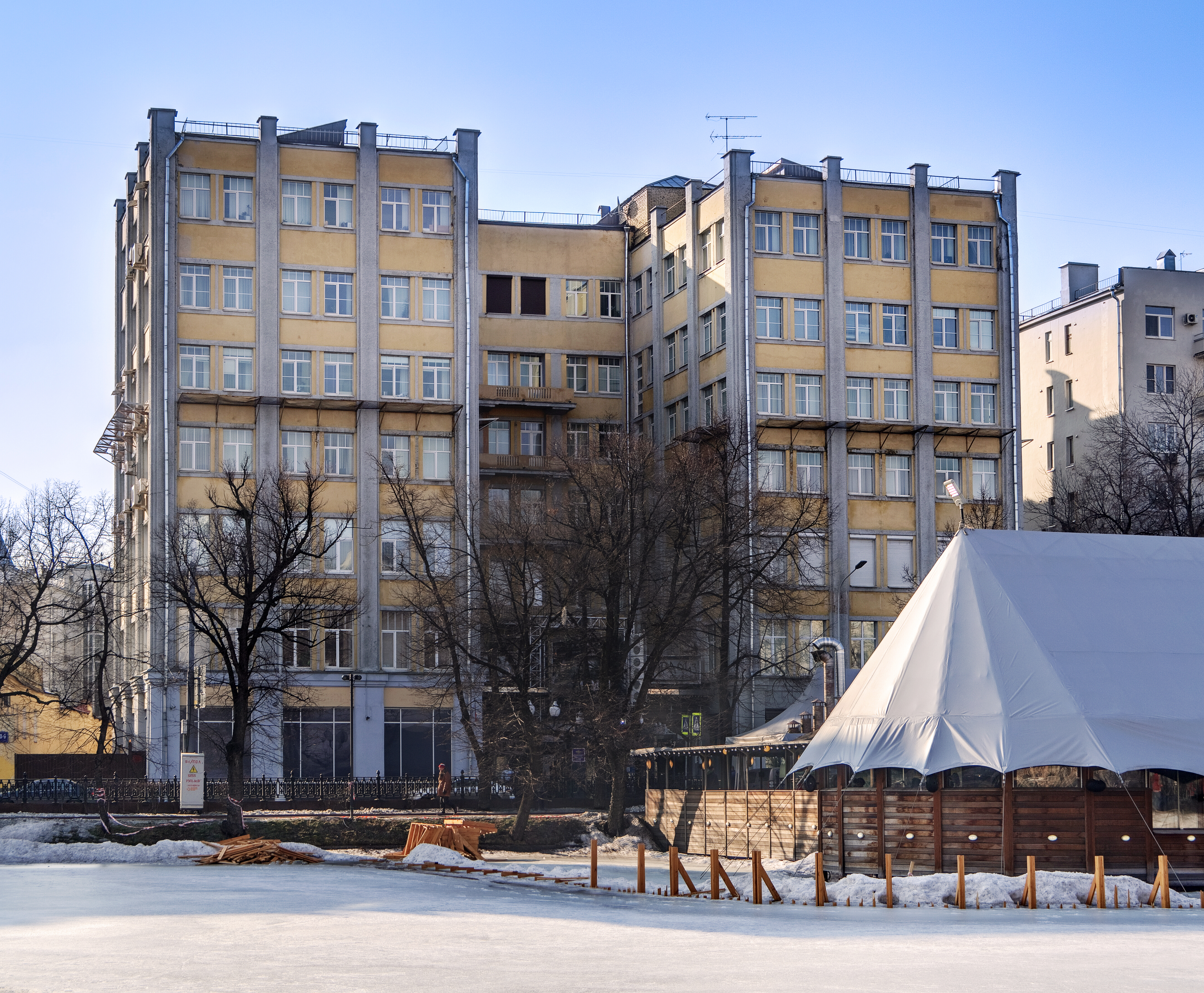 Kozhsindikat building, Chistoprudny Boulevard 12A, Moscow